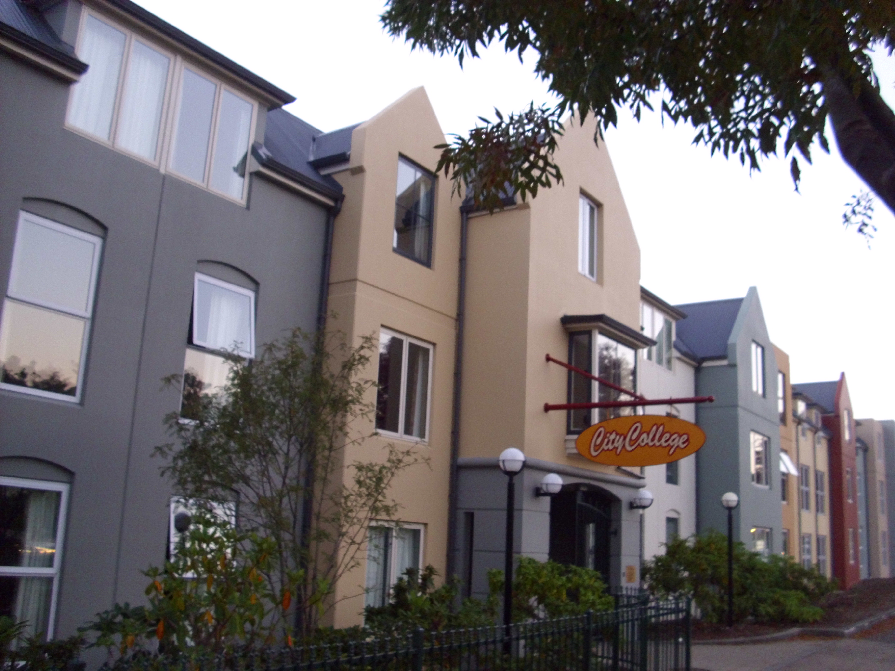 Image of City College affiliated to the University of Otago, New Zealand